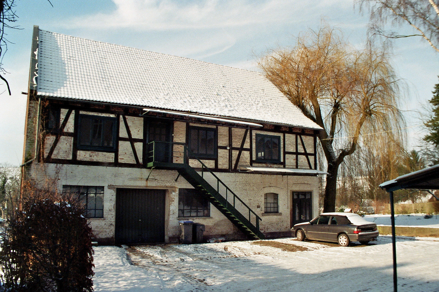 Photograph of the Building which Konrad Zuse, the german inventor of the computer, used in years 1949 to 1957 to manufacture his computers. Location 36166 Haunetal-Neukirchen, Germany; situation January 2010